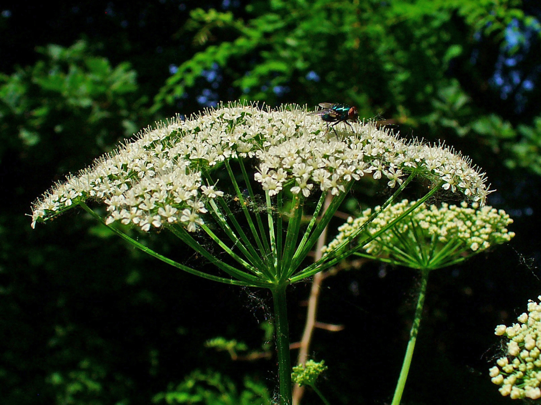 Aegopodium podagraria, Apiaceae, Ground-Elder, Herb Gerard, Bishop's Weed, Goutweed, inflorescence; Karlsruhe, Germany. The blooming plants are used in homeopathy as remedy: Aegopodium podagraria (Aego-p.)